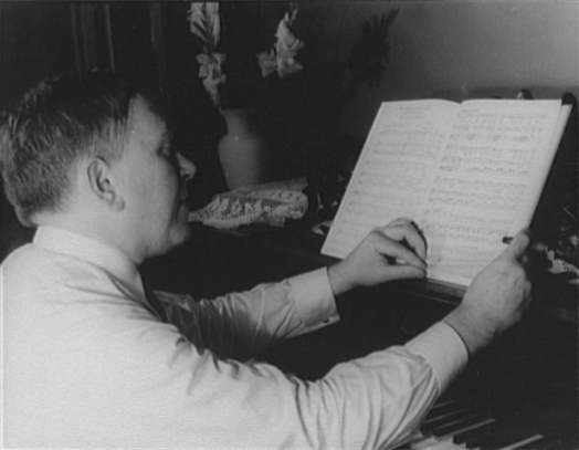 Portrait of H. L. Mencken by Carl Van Vechten. Gift, Carl Van Vechten Estate. The Library of Congress, Washington, D. C.